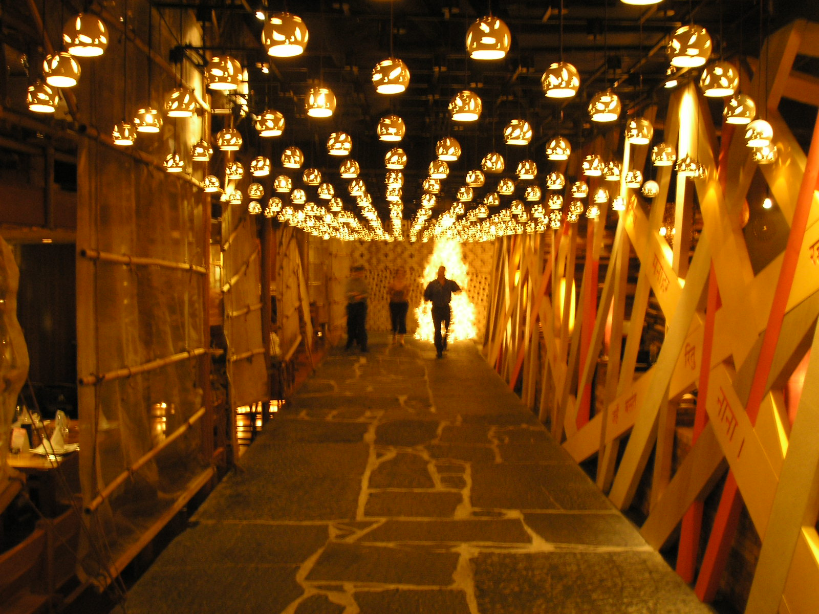 Passageway at the Village Bar at Starhill Gallery in Kuala Lumpur, at Bukit Bintang.